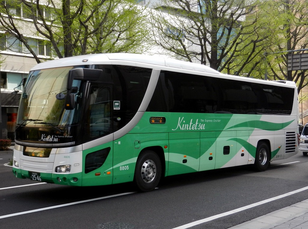 Kintetsu bus Hino S'elega (PKG-RU1ESAA,for Night Highwaybus) Highwaybus "Forest"(Osaka-Sendai)